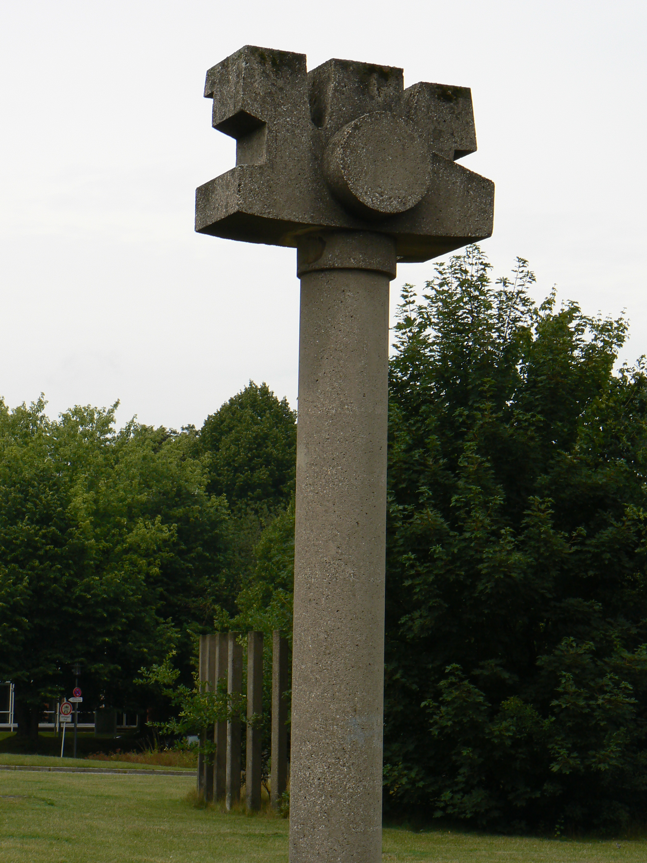 Location: city center Marl/Germany Collection: Skulpurenmuseum Glaskasten, Marl Sculpture: Polsku 1972 Sculptor: Werner Graeff